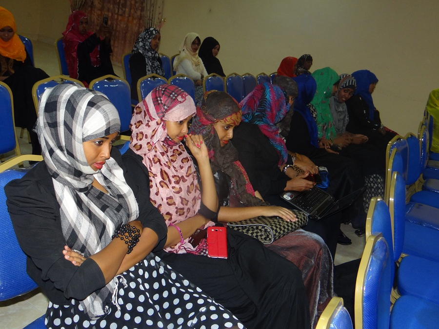 Young Somali women at a community event in Hargeisa, Somalia.